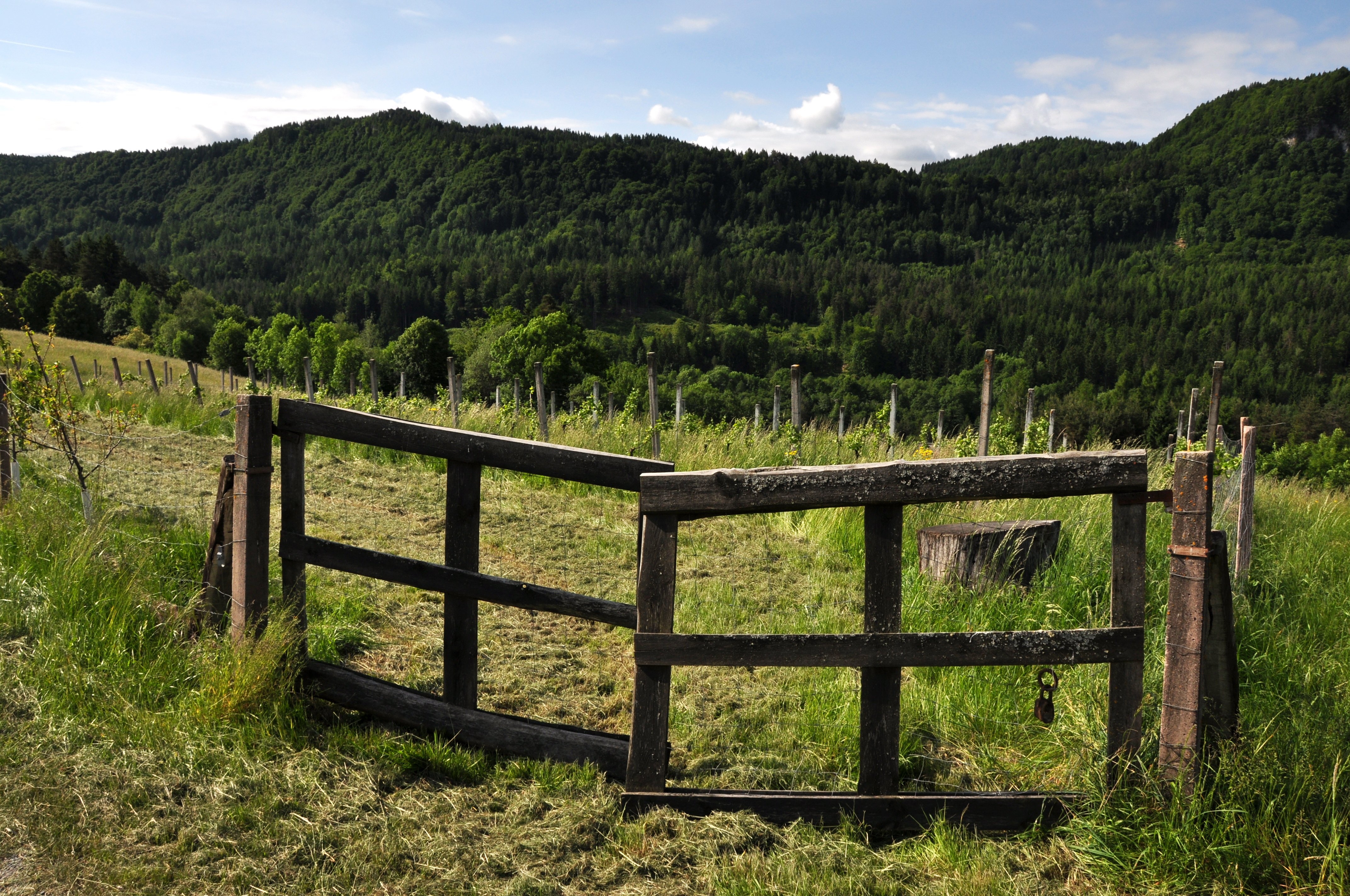 Gate to the vineyard of "vulgo Staupitz" in Rauth #2, municipality Keutschach am See, district Klagenfurt Land, Carinthia, Austria, EU